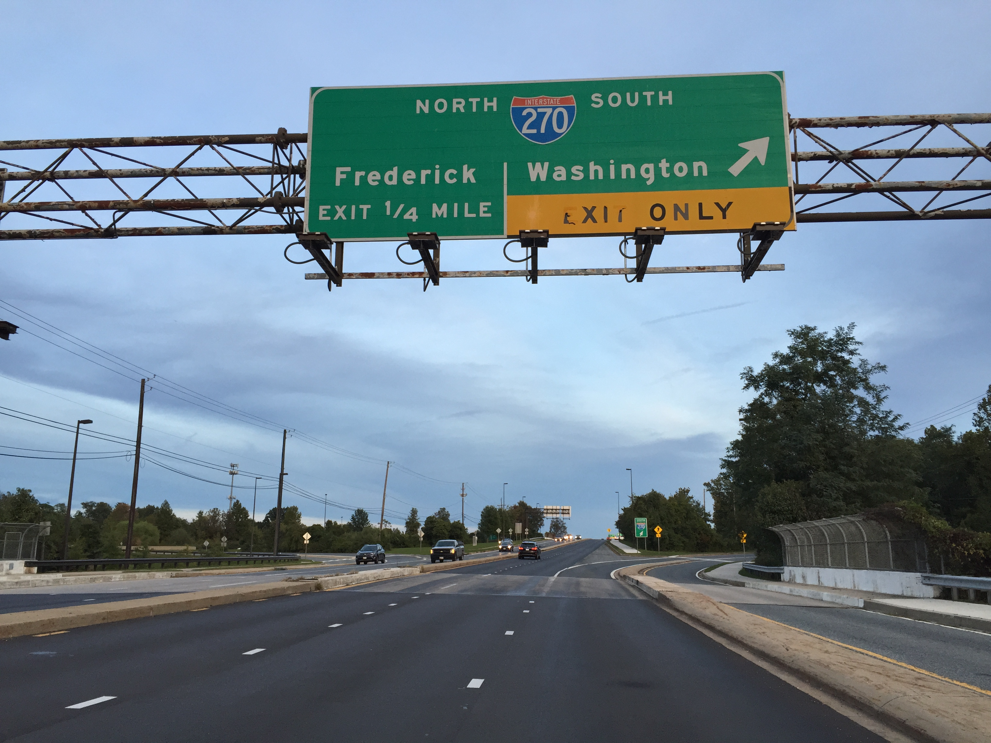 View east along Maryland State Route 927 (Montrose Road) at Interstate 270 (Washington National Pike) in Potomac, Montgomery County, Maryland